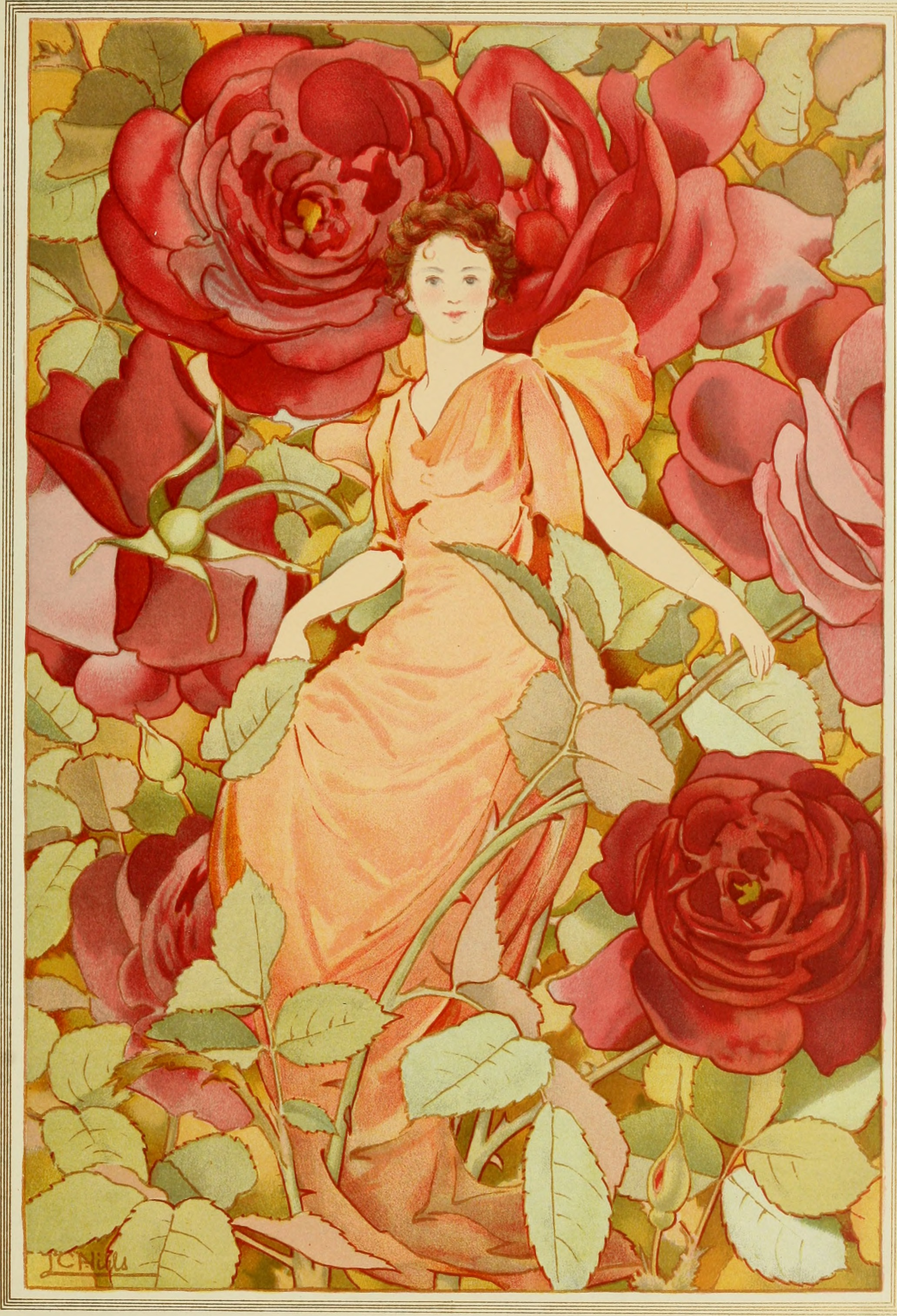 Title: Dream roses, with madrigals Year: 1897 (1890s) Authors: Jacques, Mary J. (from old catalog); Hills, Laura Coombs, 1859- (from old catalog) illus Subjects: Flowers in literature; Roses. (from old catalog) Publisher: Boston, L. Prang & co. Text Appearing Before Image: ' Text Appearing After Image: '